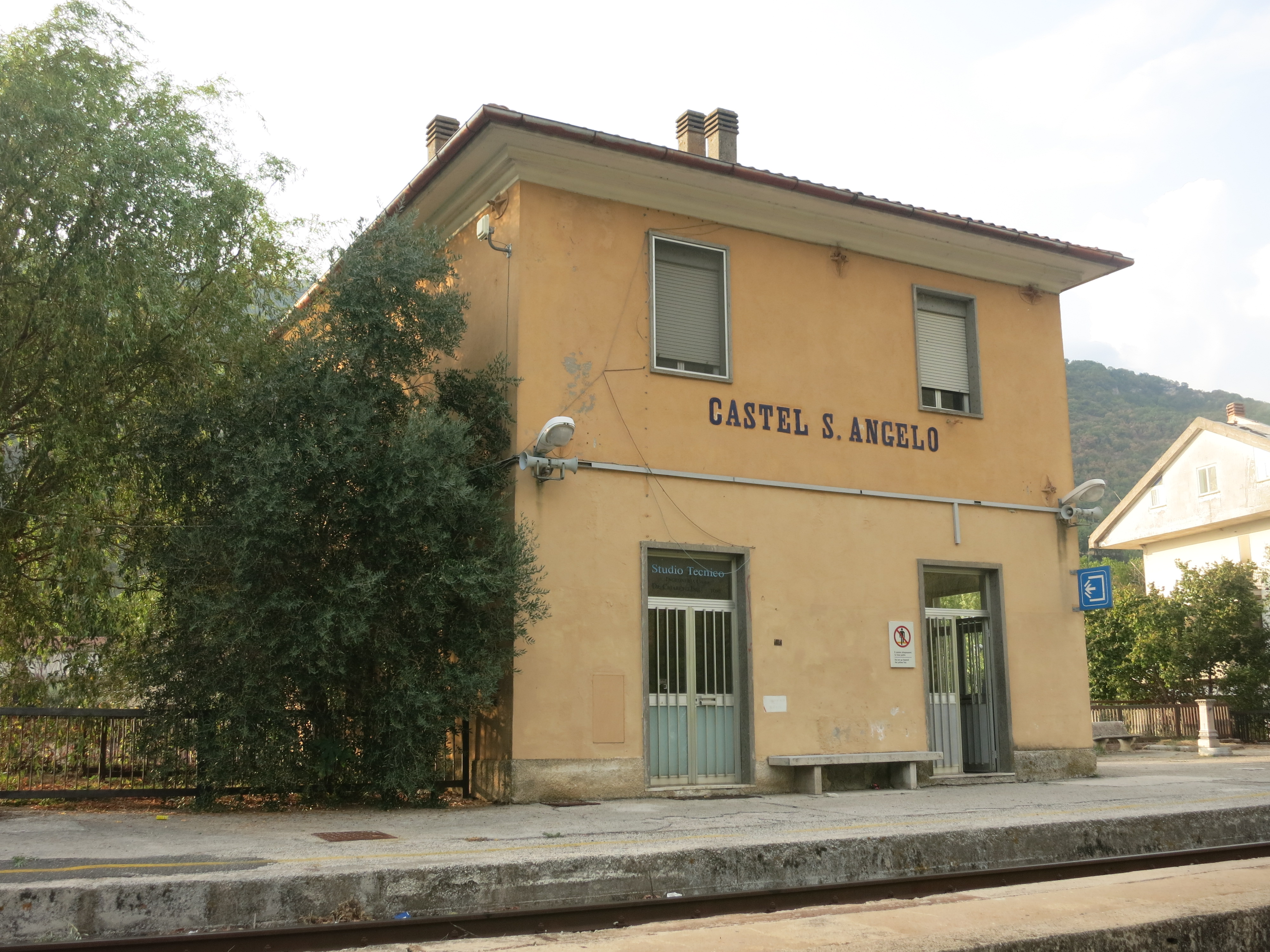 Castel Sant'Angelo train station (province of Rieti, Lazio, Italy), on the Terni-Rieti-L'Aquila-Sulmona line.